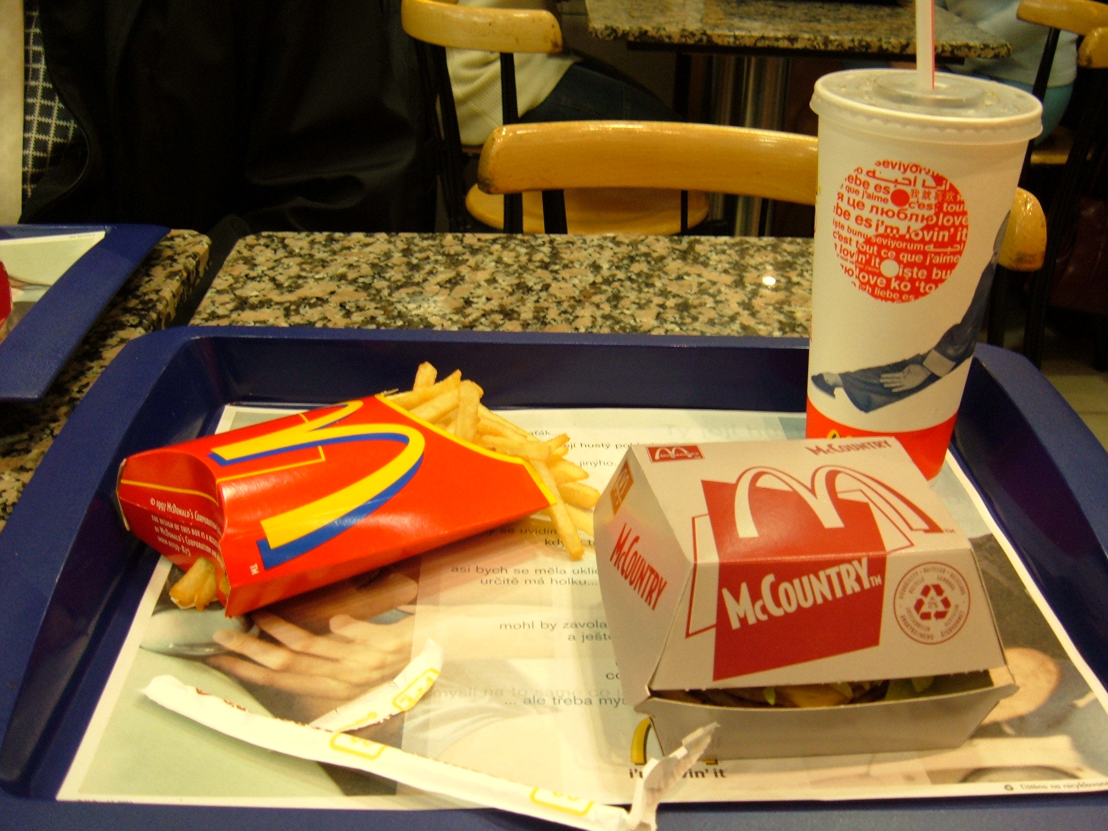 A McCountry meal from a McDonald's in Wenceslas Square, Prague.